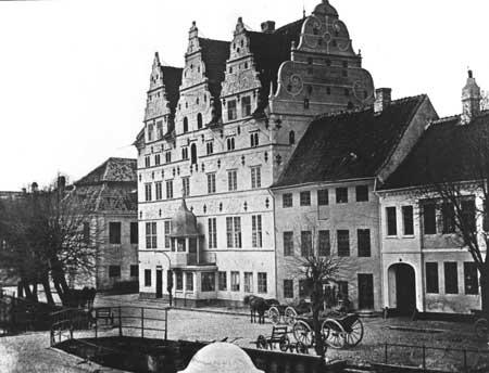 Jens Bangs Stenhus in Aalborg, Denmark. Vintage photograph from 1890